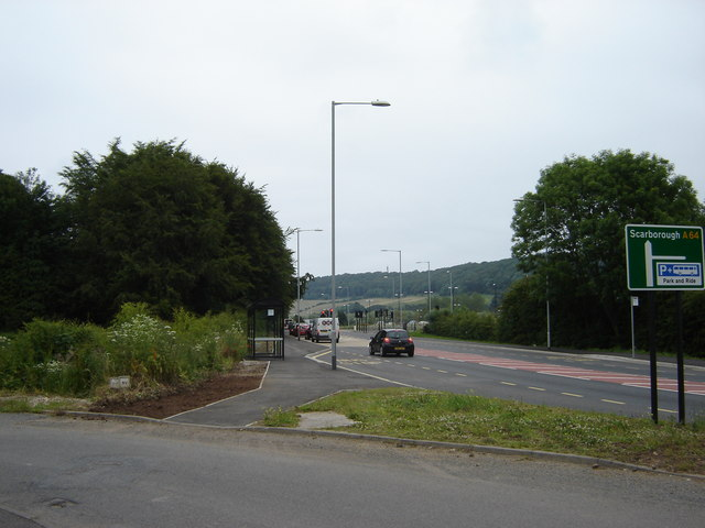 Park and Ride On the A64 approaching Scarborough a new (2009) Park and Ride has been built